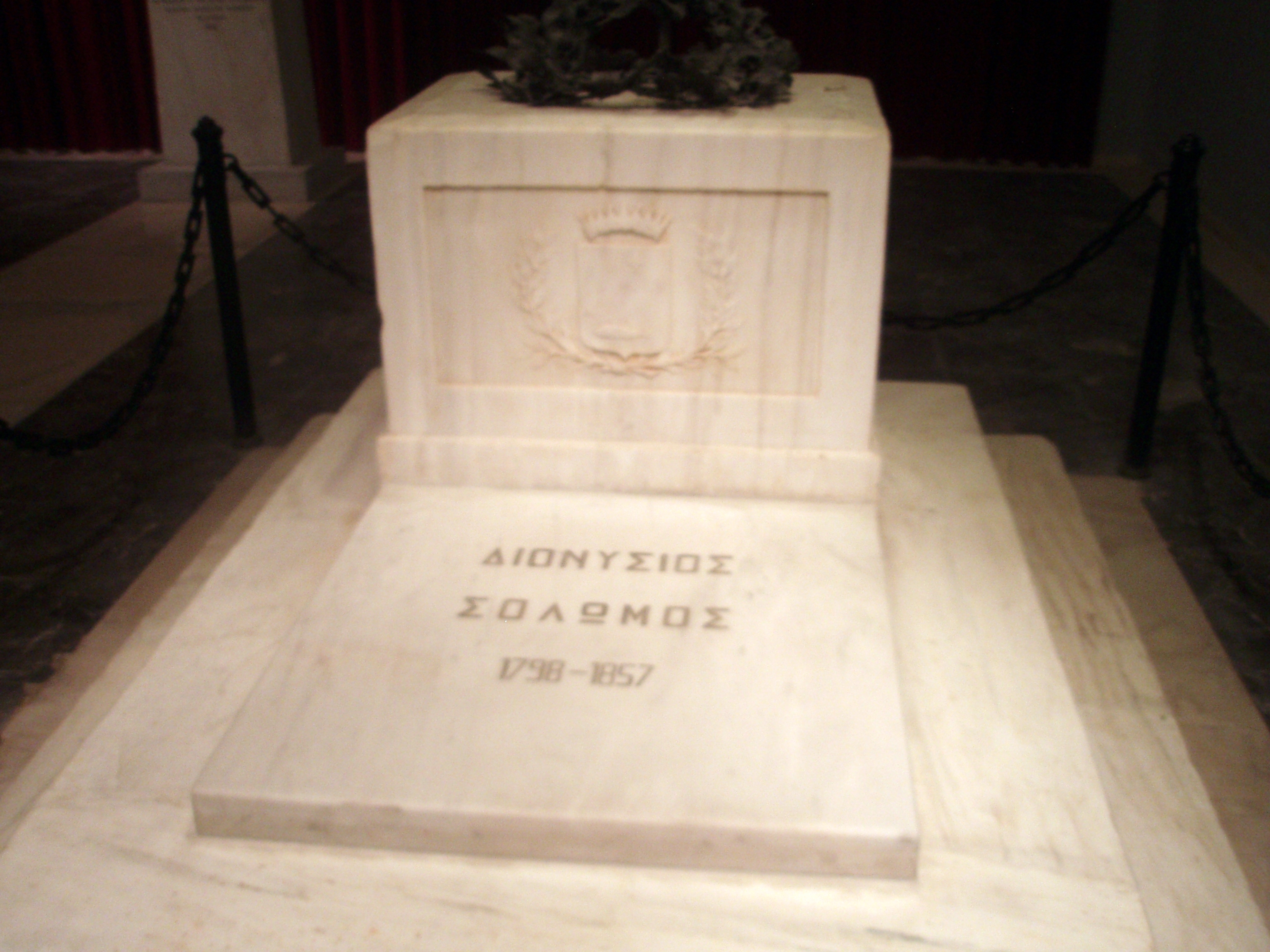 Tomb of Greek poet Dionysios Solomos. Located in the Museum of Dionysios Solomos and other famous Zakynthians, Zakynthos (city), Greece.